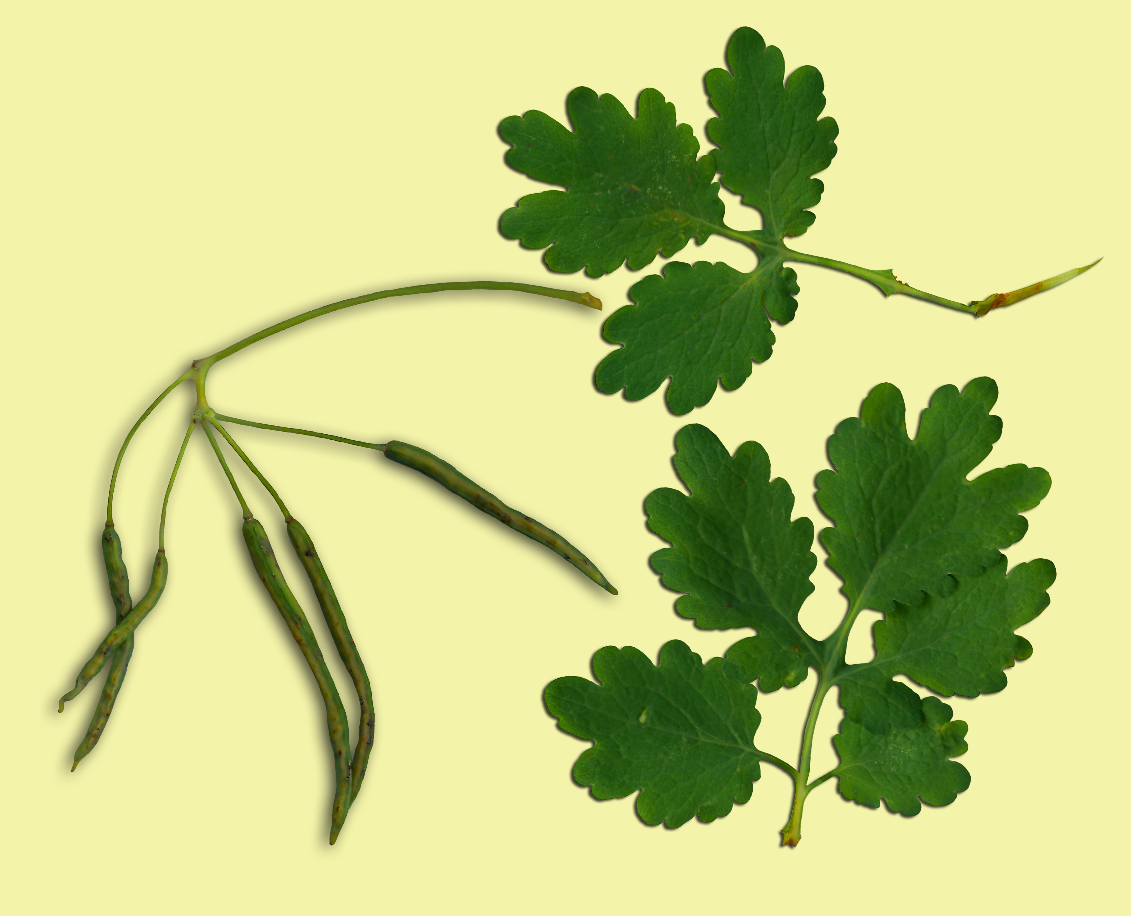 Greater celandine